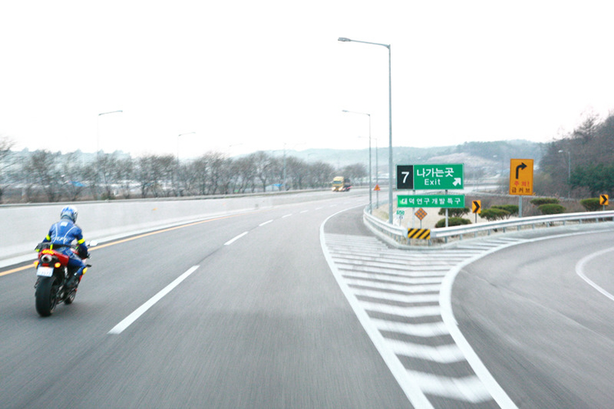 CBR1000RR on the Honam Expressway Branch, Exit sign of North Daejeon Interchange